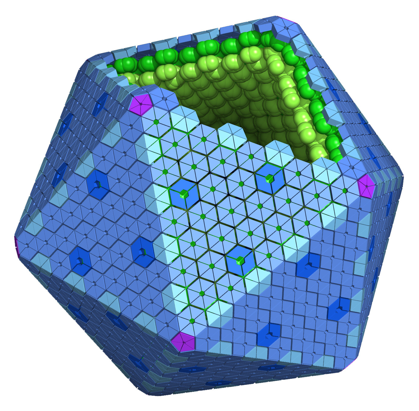 Stylized view of the carboxysome and related bacterial structures such as the propanediol utilization (Pdu) and ethanolamine utilization (Eut) microcompartments. Distinct hexameric BMC shell proteins carrying out different functions in the shell are shown in different shades of blue. Pentameric vertex proteins are shown in magenta. Encapsulated enzymes are shown in green, organized in layers. [Image: T. Yeates]